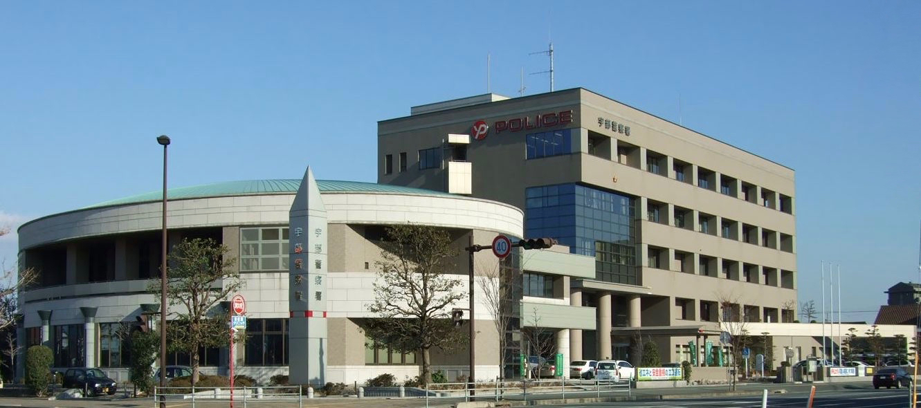 Ube Police Station, Tsuneto, Ube, Yamaguchi, Japan.